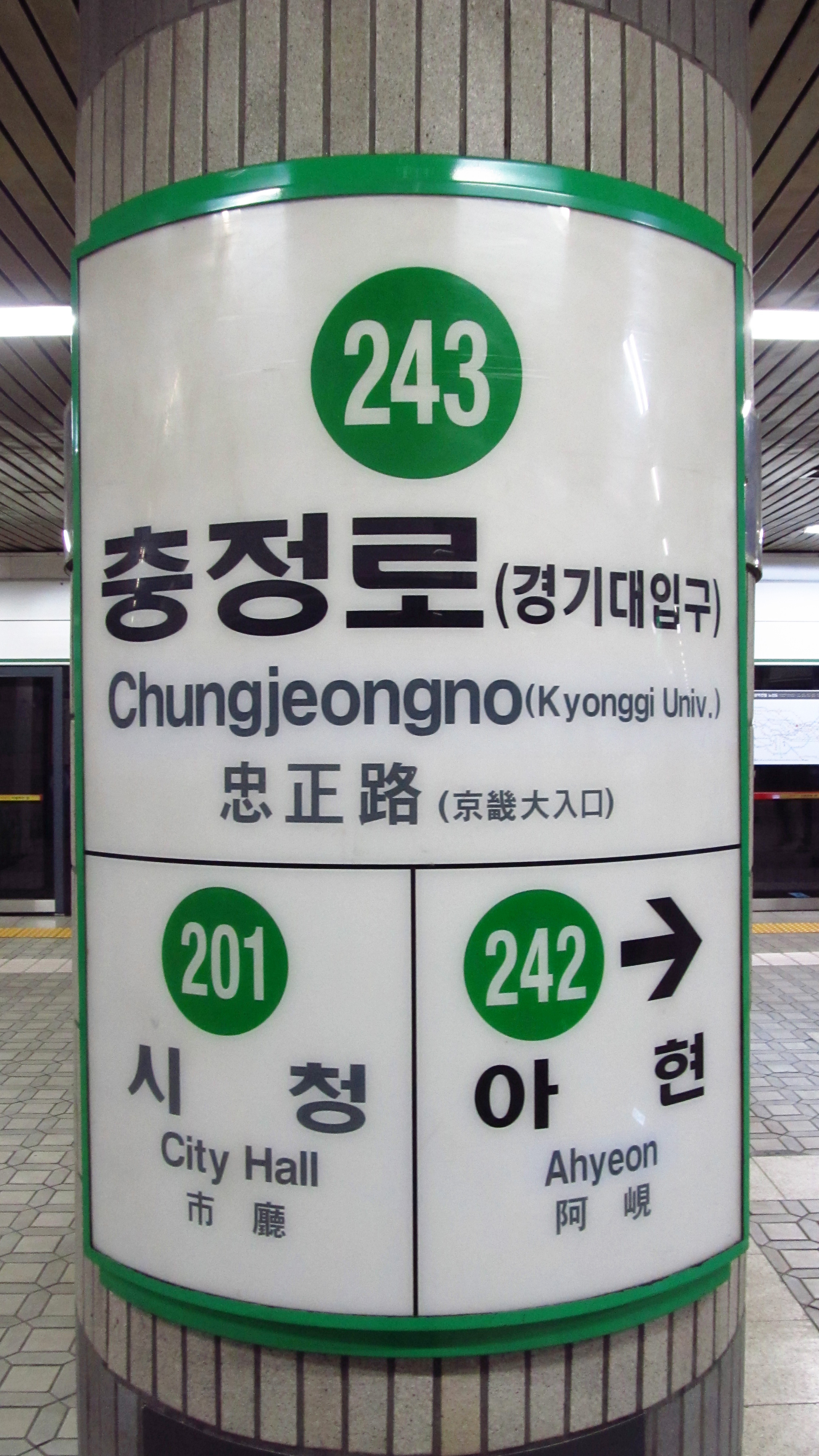 A sign of Chungjeongno Station on Seoul Subway Line 2